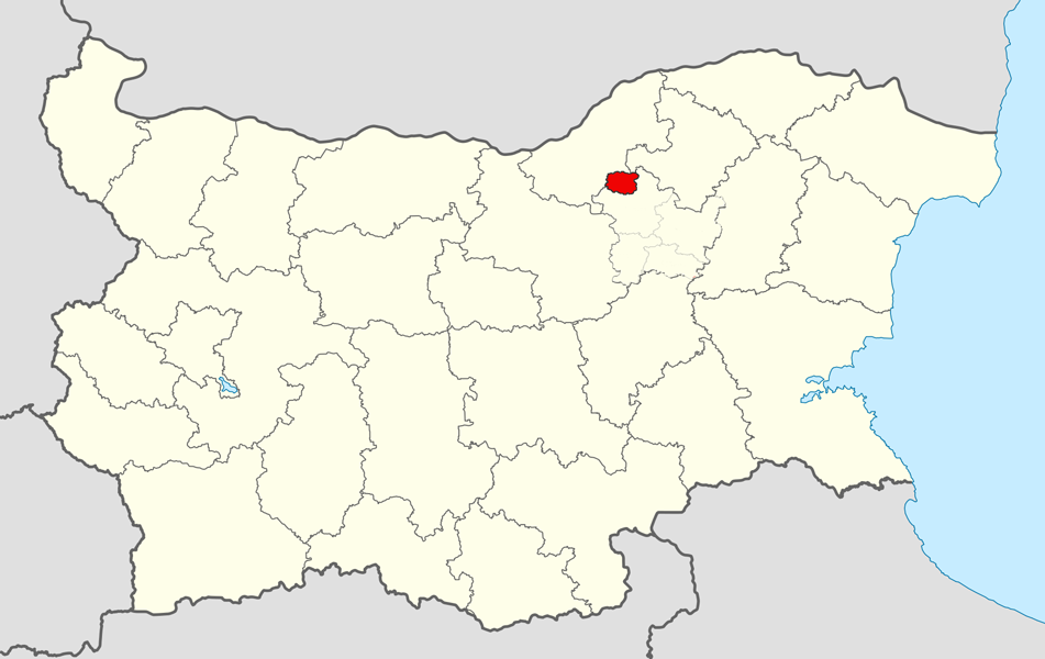 Location map of Opaka Municipality within Targovishte Province, Bulgaria. Equirectangular projection, N/S stretching 130 %. Geographic limits of the map: N: 44.4° N S: 41.1° N W: 22.1° E E: 28.9° E